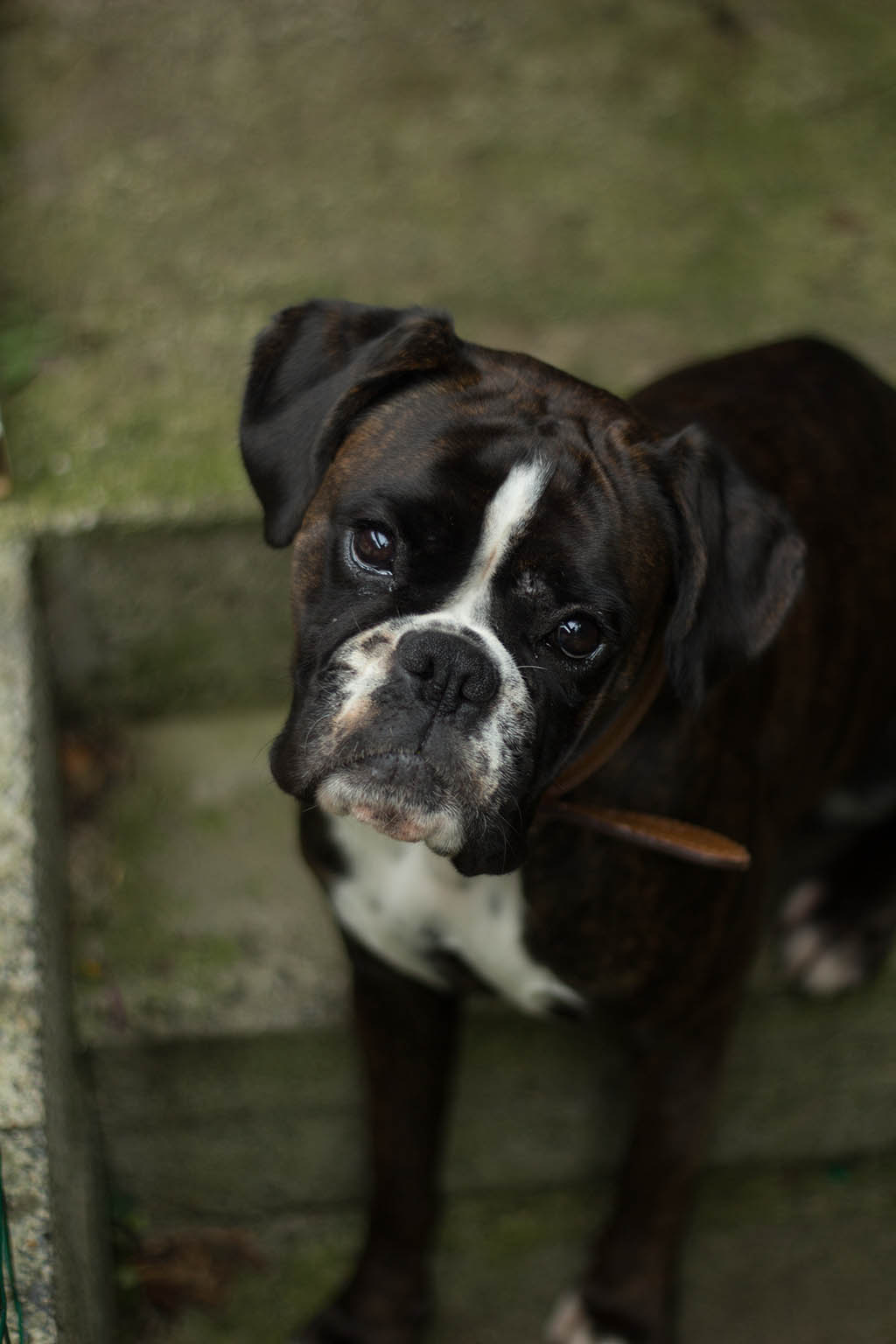 Joy, Female boxer (1 year1/4).